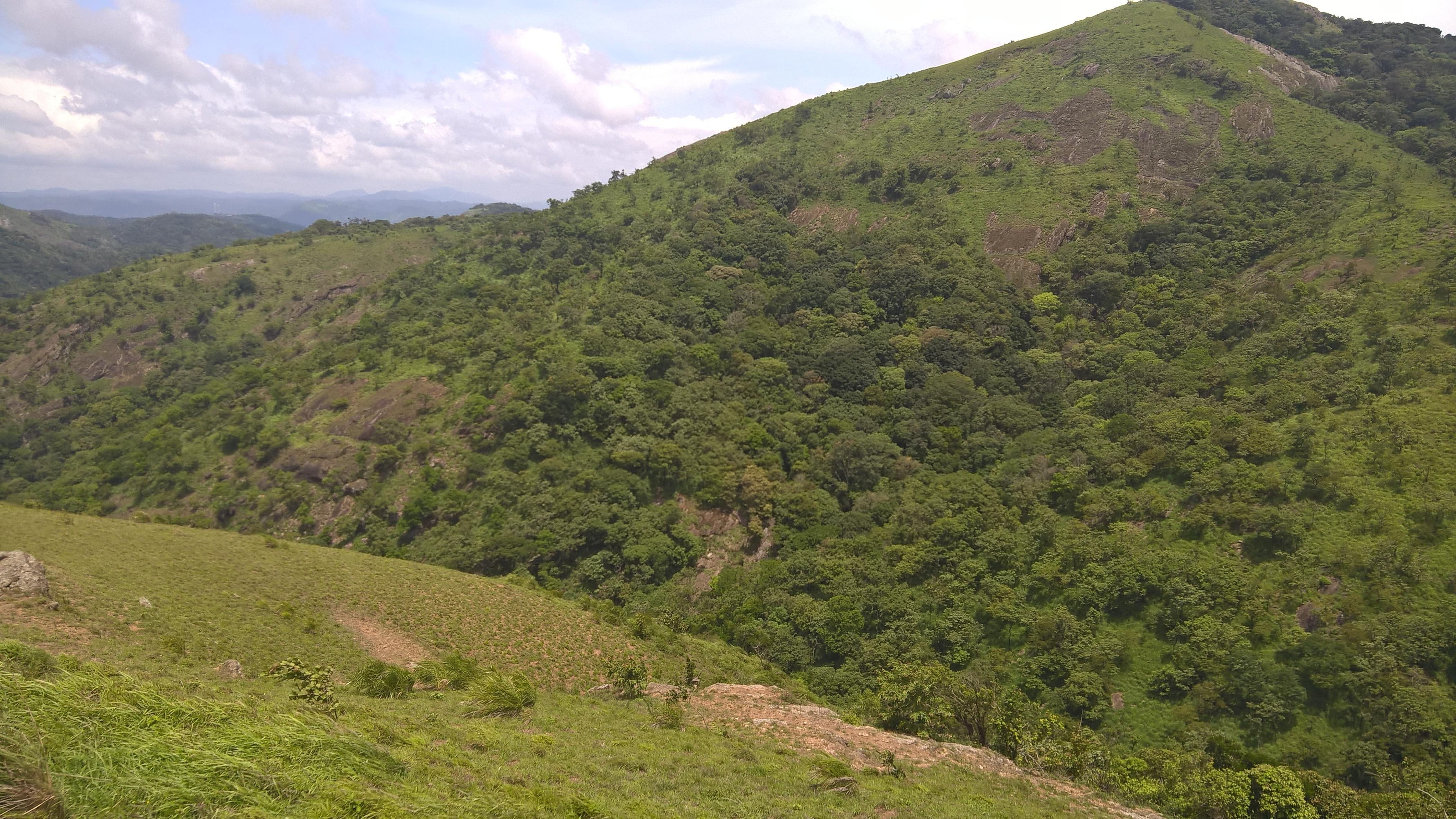 This picture shows the view from the Chaturangapara which is situated at Kerala Tamilnadu border.Attraction of this place is at winter season top view of clouds can be seen and another attraction is that a large area of Tamilnadu can be view from this point.This picture is captured from amountain called Chaturangpara.At any seasons this area is blessed with wind at very high power.We can reach here by walk through the Theni forest area.